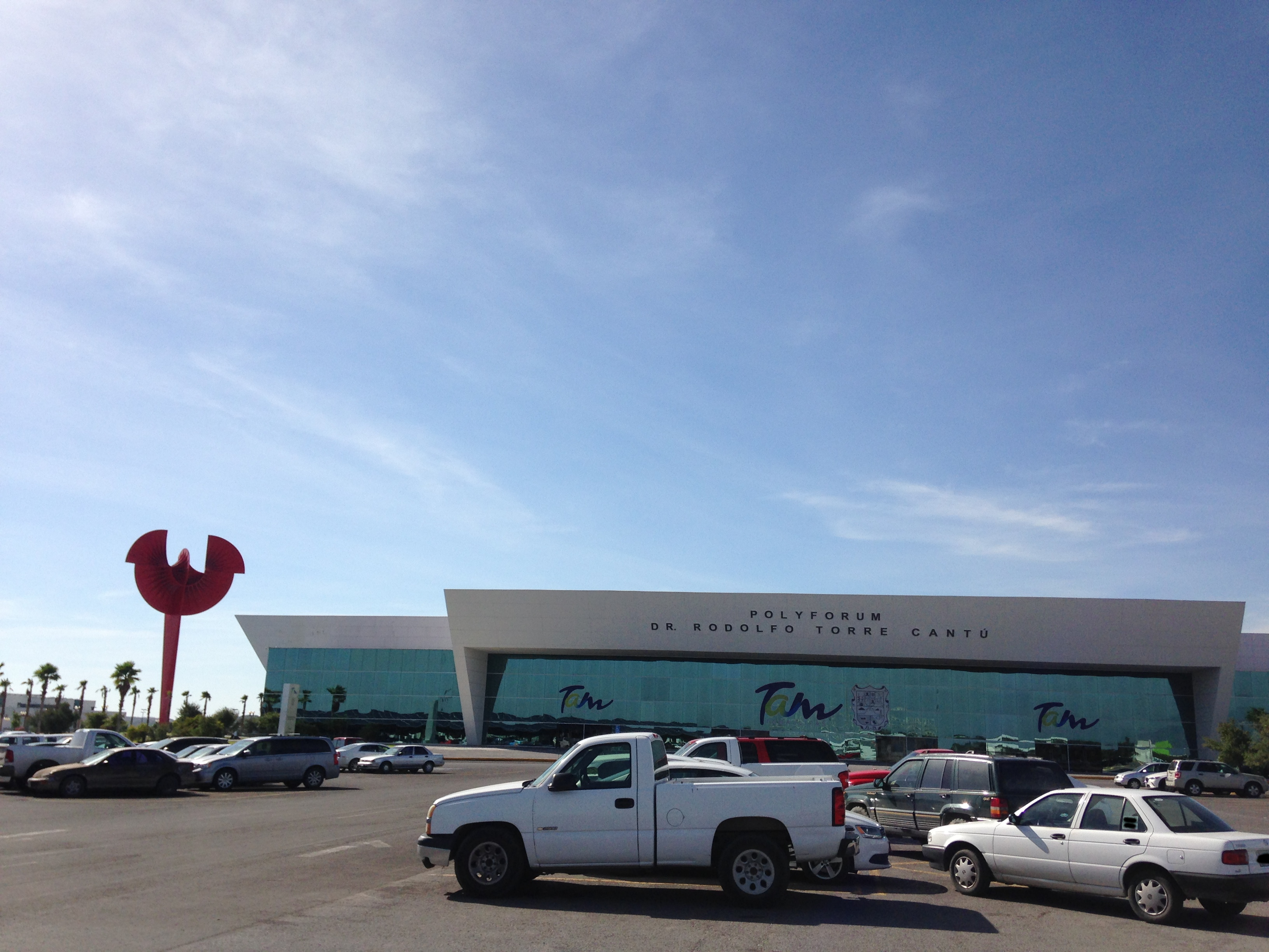 Polyforum "Rodolfo Torre Cantú", centro de convenciones dentro del Parque Bicentenario en Ciudad Victoria, estado de Tamaulipas, México